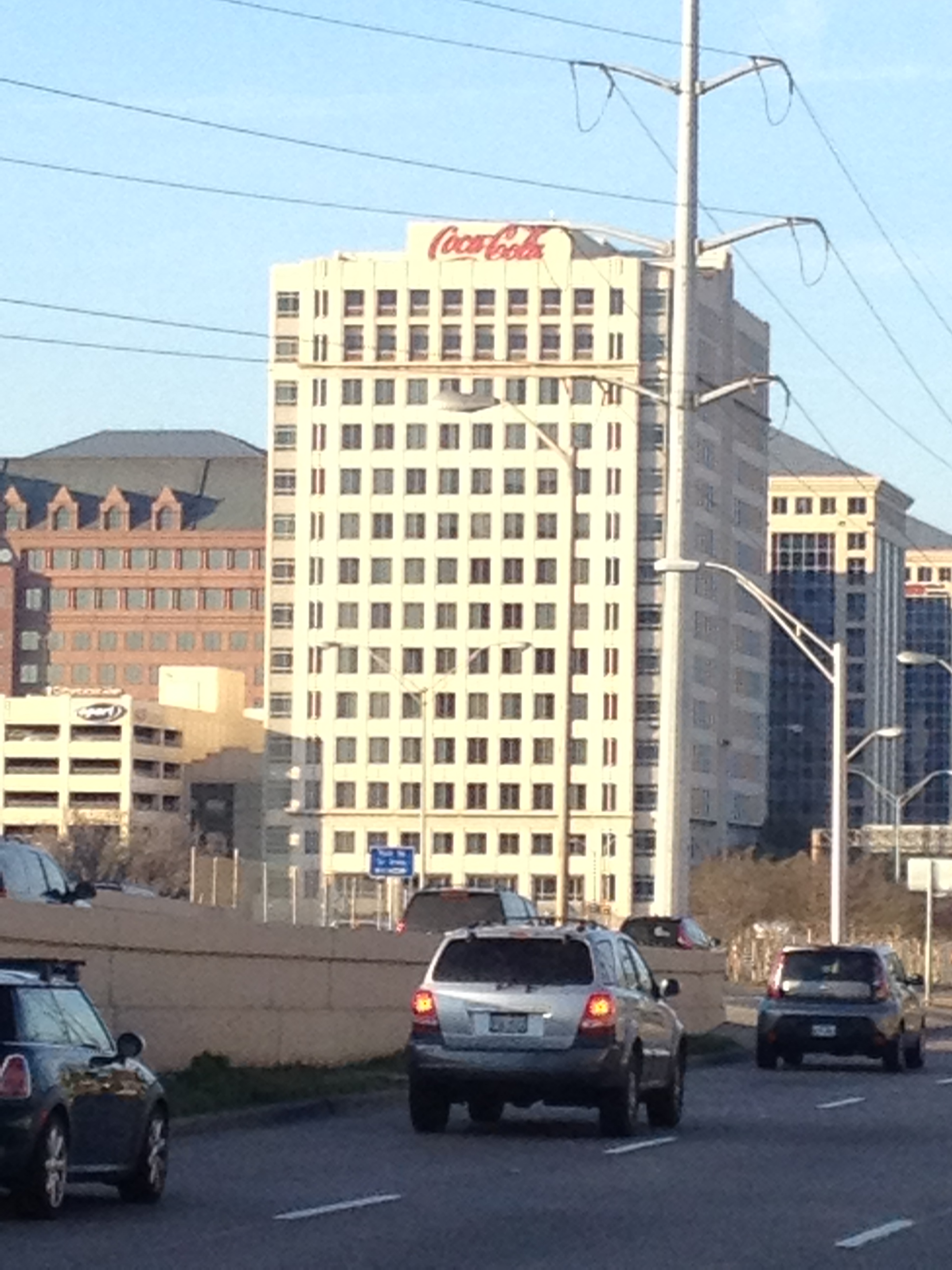 Coca Cola Enterprises Bottling building in Farmers Branch, Texas at Dallas North Tollway across from Galleria Dallas Mall.